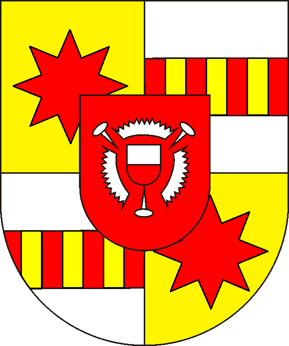 coat of arms county of Holstein-Pinneberg